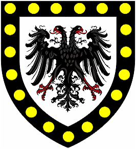 Arms of Killigrew: Argent, an eagle displayed with two heads sable a bordure of the second bezantée. The earliest recorded member of the family is Ralph Killigrew, supposed to have been a natural son of Richard, 1st Earl of Cornwall (1209-1272), King of the Romans (second son of King John (1199-1216) and thus brother of King Henry III) by his concubine Joan de Valletort. The Killigrew arms showing a double-headed spread eagle within a bordure bezanty are believed to refer to this royal descent, namely the eagle representing the arms of the King of the Romans (Or, an eagle with two heads displayed sable) and the bezants representing the arms of the Earl of Cornwall (Sable, ten bezants, 4, 3, 2, 1). (See:Tregellas, Walter Hawken (1831–1894), Cornish Worthies, 1884, Vol.2, p.116The Killigrews: Diplomatists, Warriors, Courtiers and Poets)